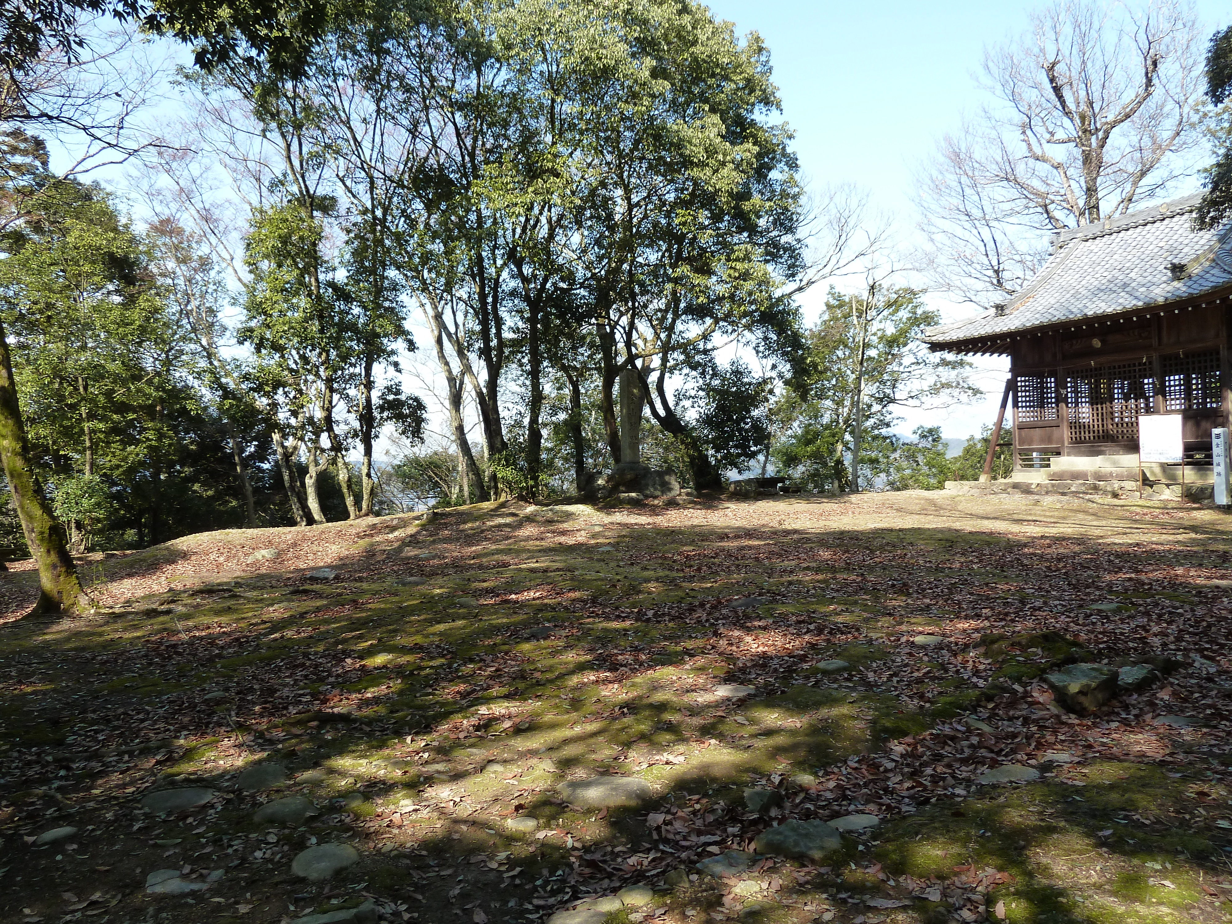 本丸御殿跡